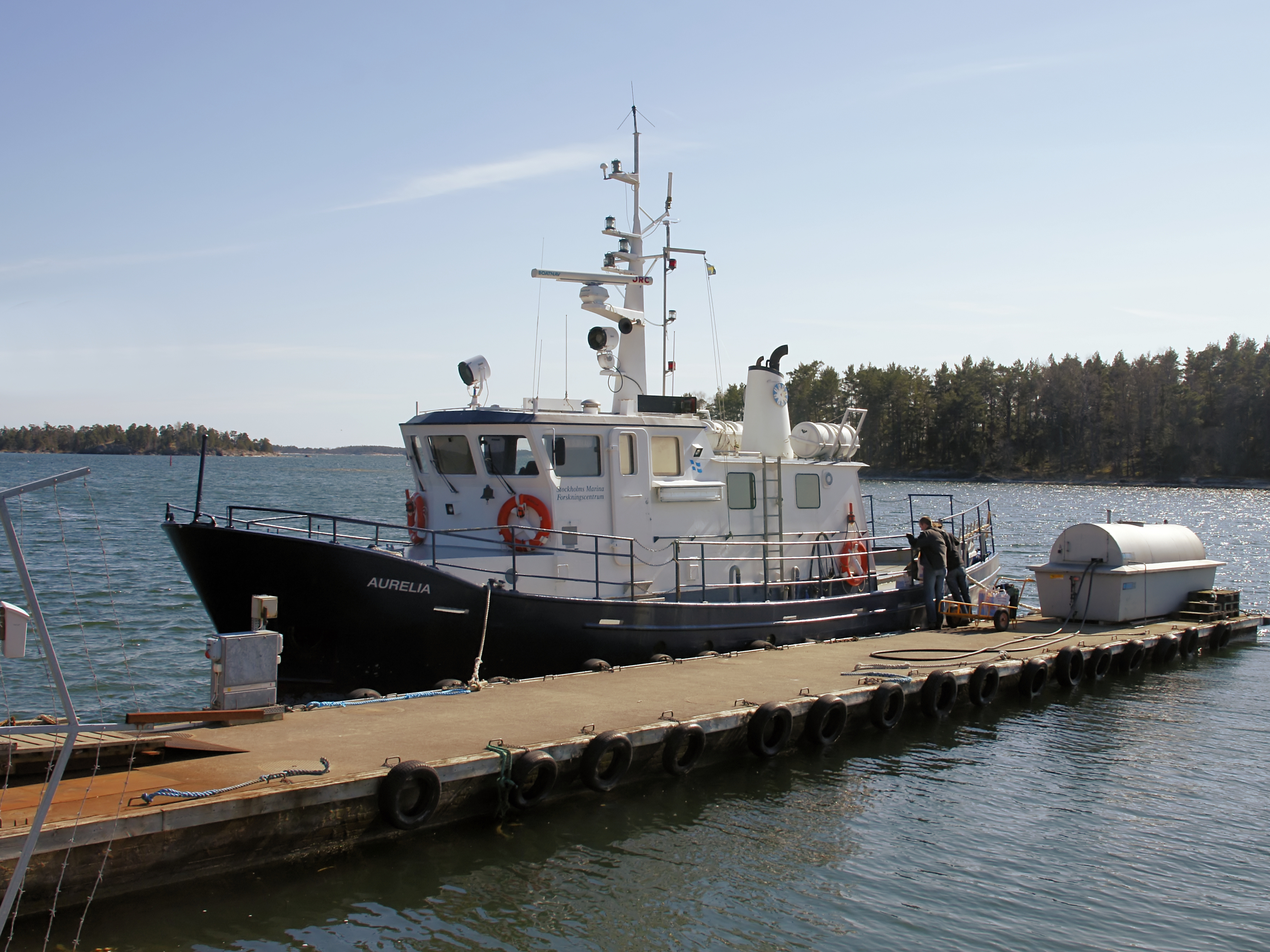 The R/V Aurelia at the port of Uttervik, preparing to sail to Askö, Sweden